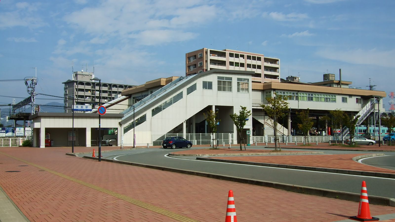 Chikushi Station, Nishitetsu Tenjin Omuta Line.